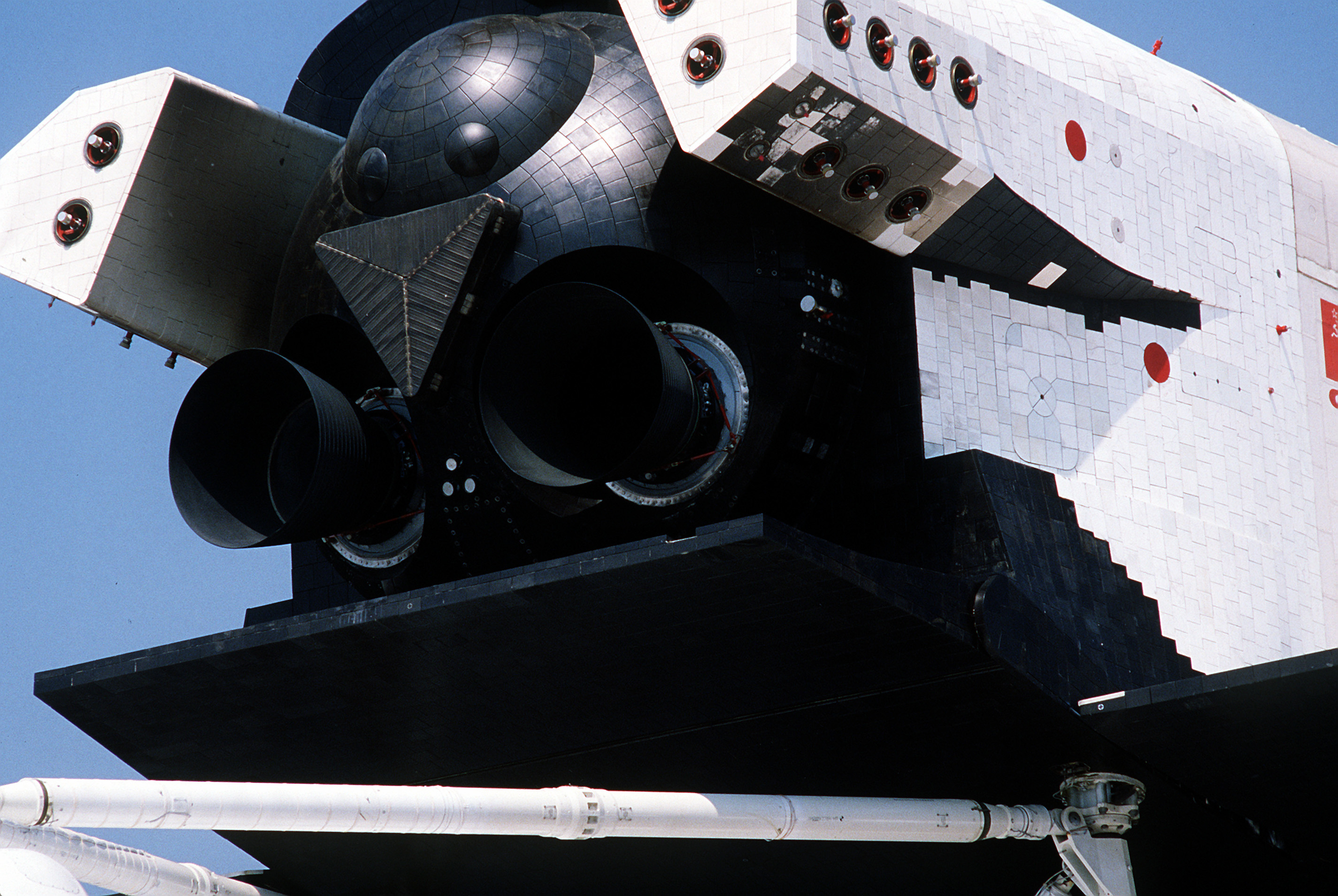 A partial rear view of the Soviet Space Shuttle Buran, on display at the 38th Paris International Air and Space Show at Le Bourget Airfield.